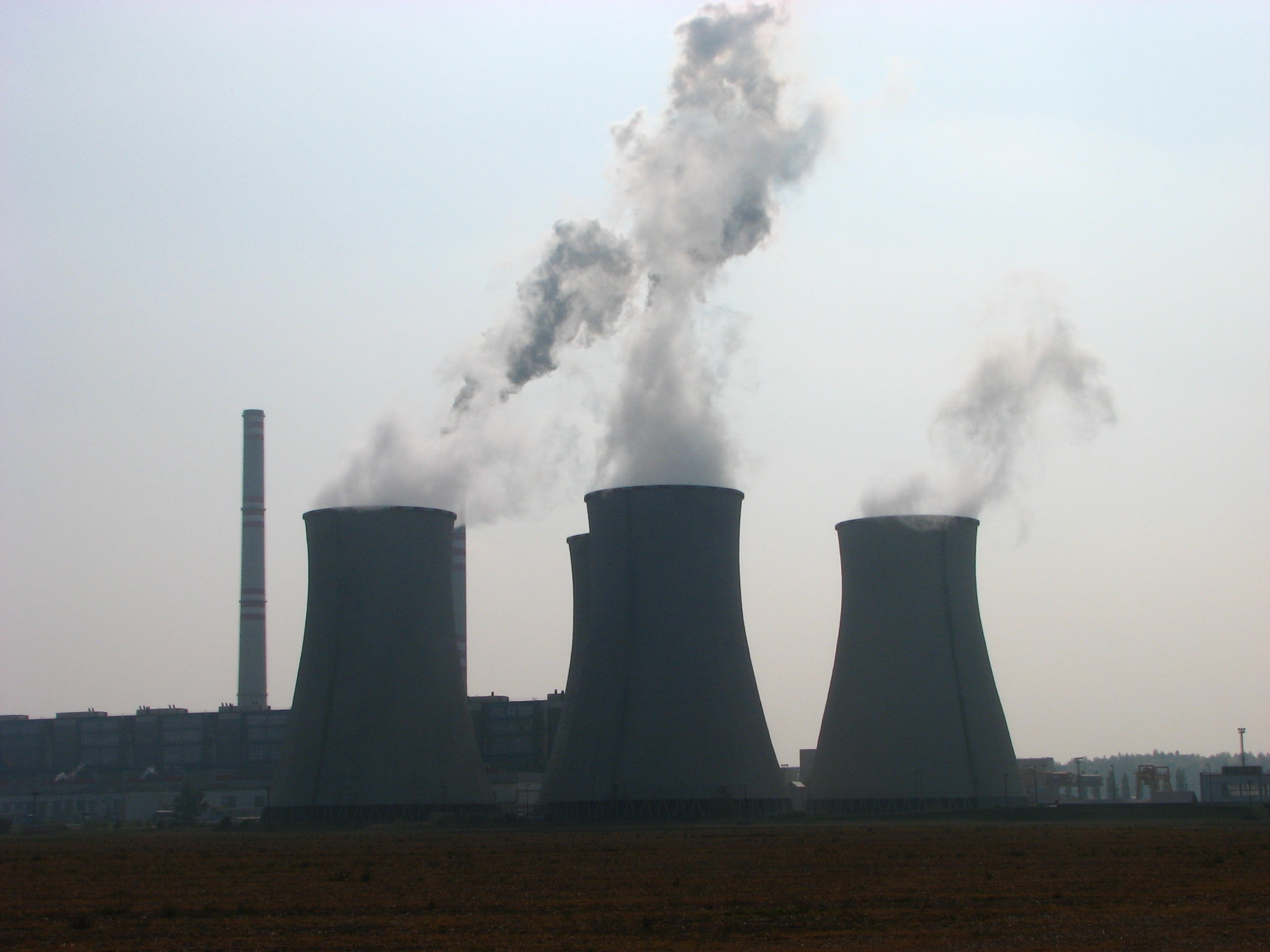 Pocerady coal-fired power plant